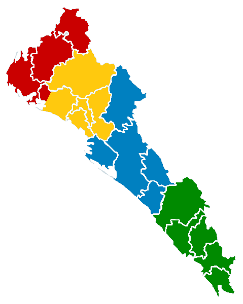 Autonomous University of Sinaloa Regional Units North Regional Unit Center-North Regional Unit Center Regional Unit South Regional Unit